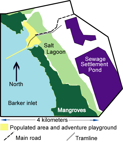 Layout of the suburb of St Kilda, South Australia created in Adobe illustrator with information from satellite maps and street directories. Mangroves shown cover both mangroves and samphire salt flats. Created by Peripitus, uploaded to wikipedia then re-uploaded here